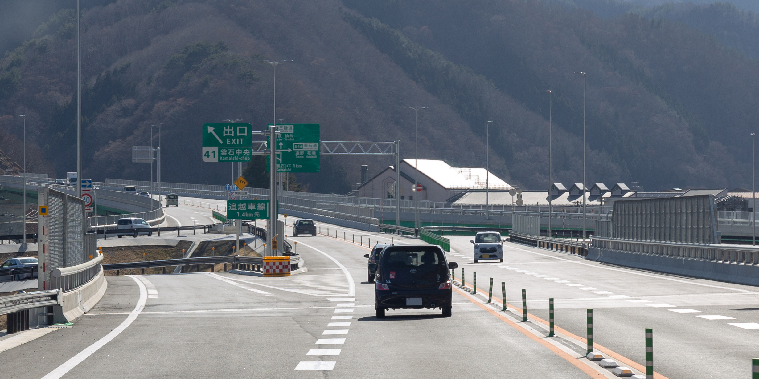 Kamaishi-chuo Interchange on the Sanriku Expressway southbound line in Kamaishi City, Iwate Prefecture, Japan